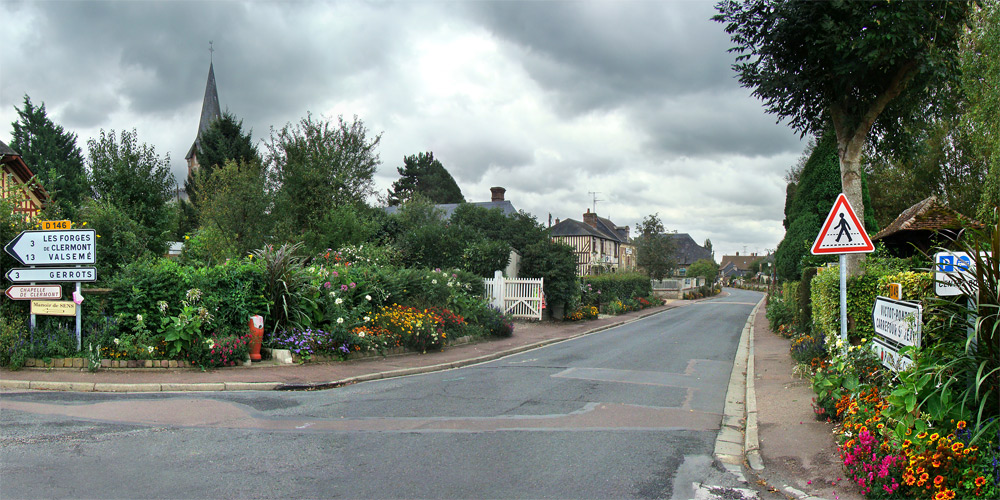 Beuvron-en-Auge, Calvados, Normandie, France. Village entry.